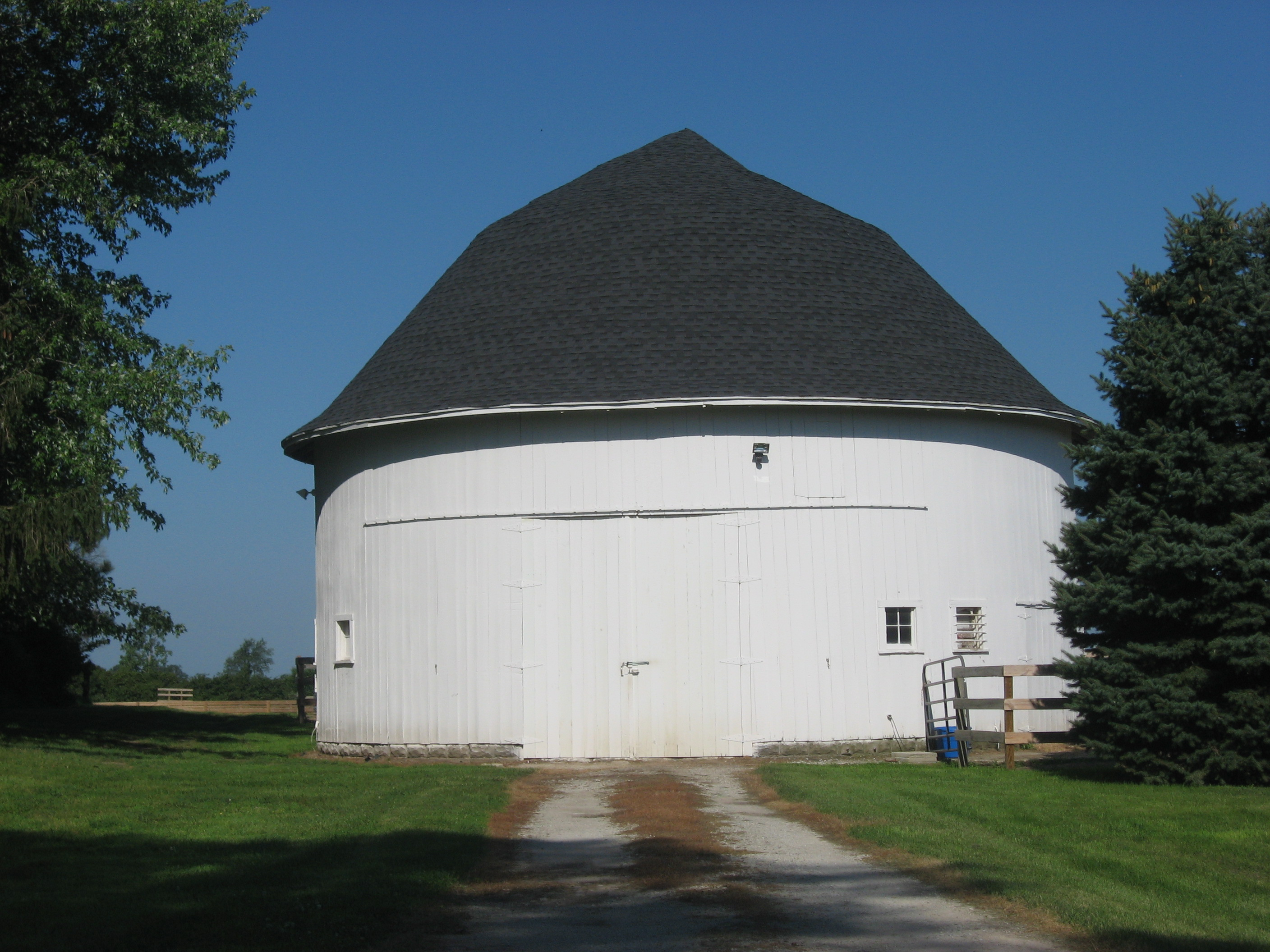 Front of the Don Smiley Round Barn, located at 1147 Dogwood Drive just west of Rochester in Rochester Township, Fulton County, Indiana, United States. It was built in 1912.